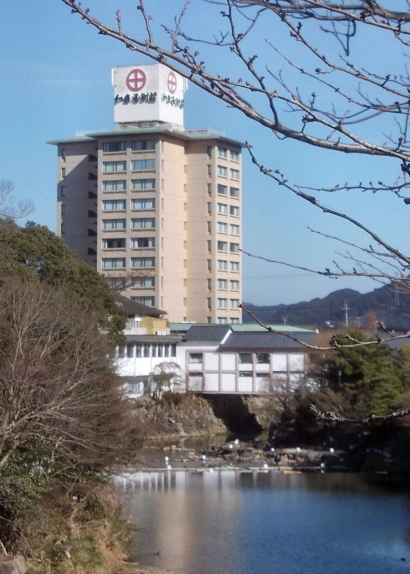 Wataya Besso, a luxury hotel in Ureshino Onsen hot springs, Saga, Japan